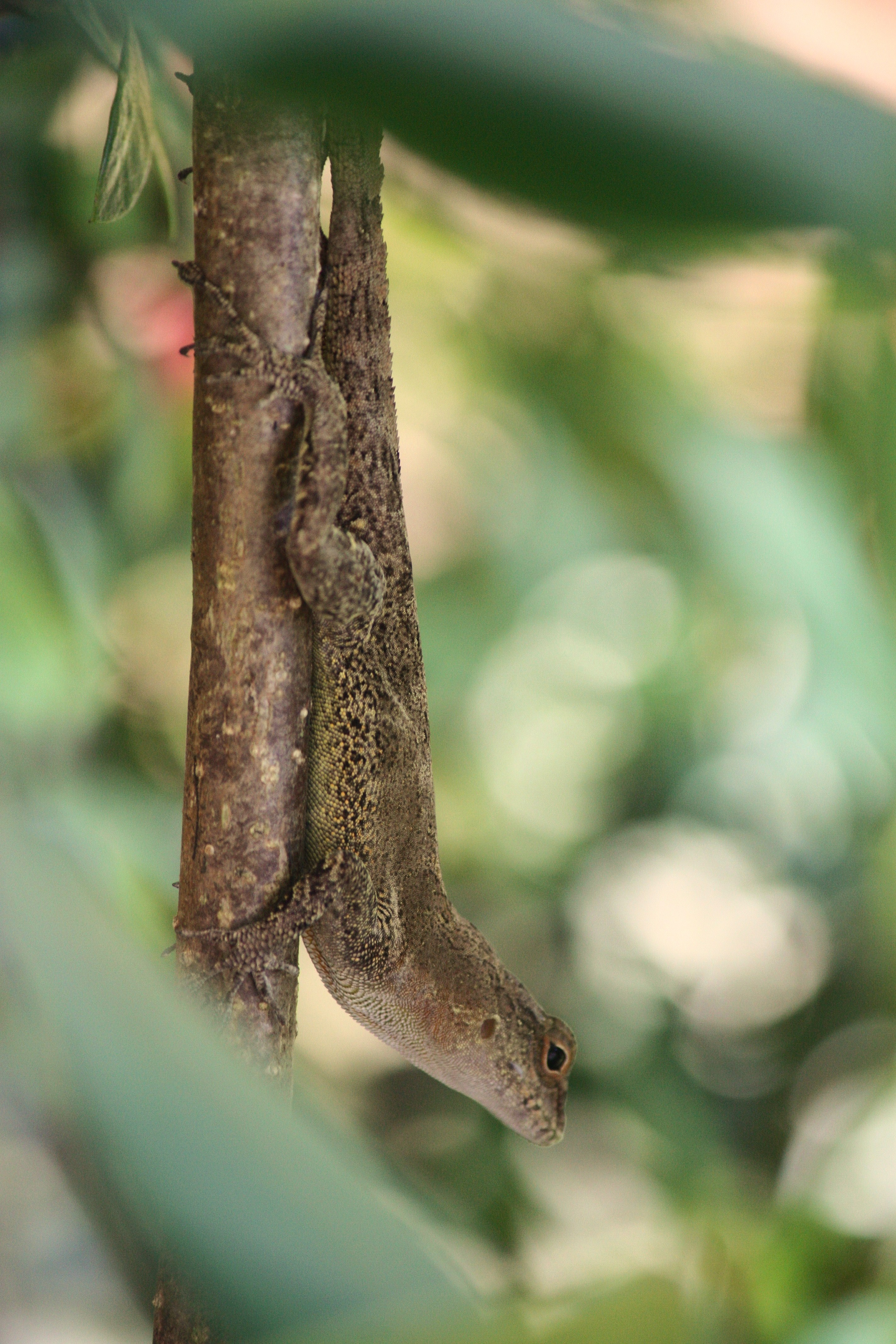 Puerto Rican Crested Anole (Anolis cristatellus) in Picard, Dominica.